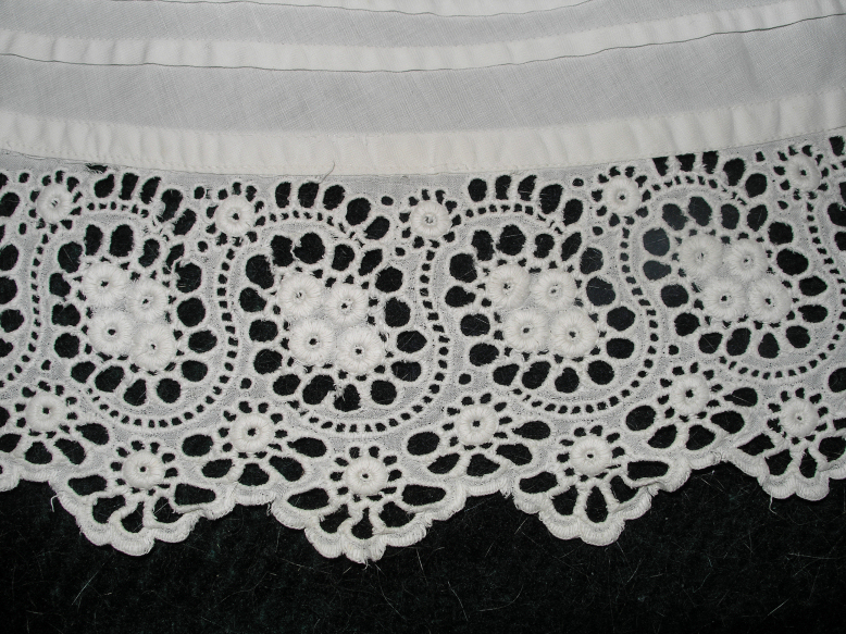 Handmade cotton cutwork frill on machine-sewn tucked petticoat.